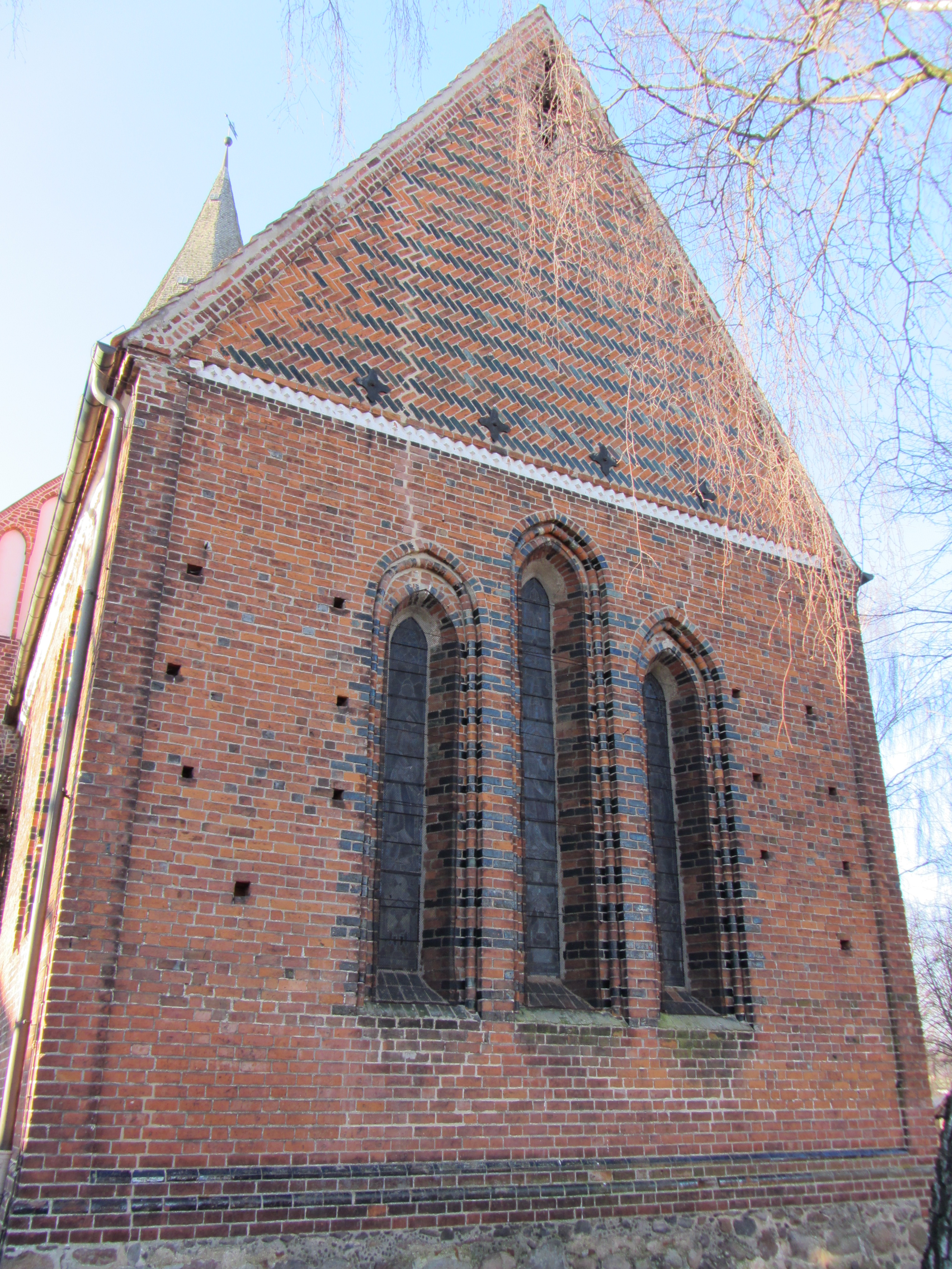 Church in Neubukow, district Rostock, Mecklenburg-Vorpommern, Germany